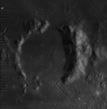 Sommering, on the moon.